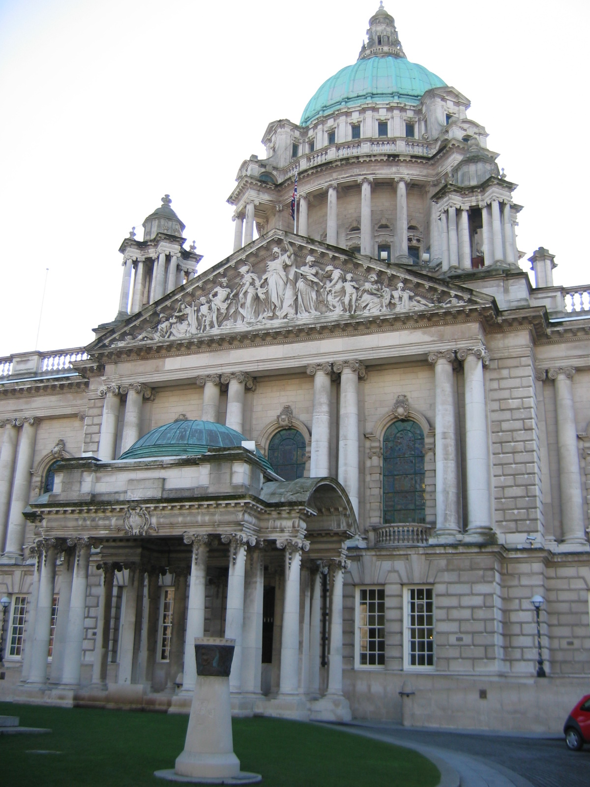 Belfast City Hall, Ireland